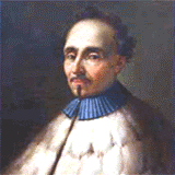 Pietro Mengoli (1685-1686), Italian mathematician